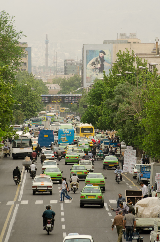 Large wall painting is the picture of Martyr Seyed Mojtaba Hashemi, Commander of Partisan Battles Khayyam street - Tehran